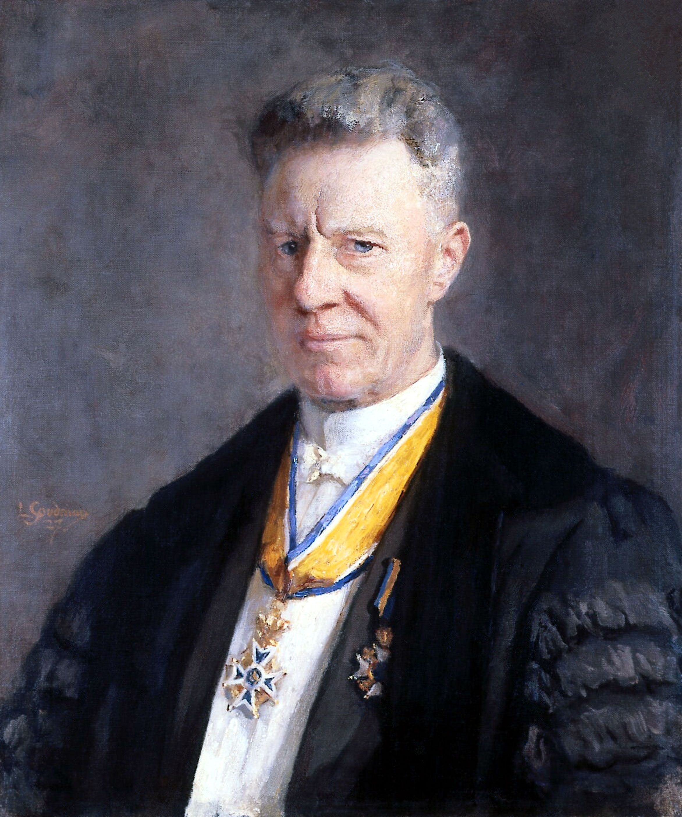 Painting of Scientist Hendrik Zwaardemaker